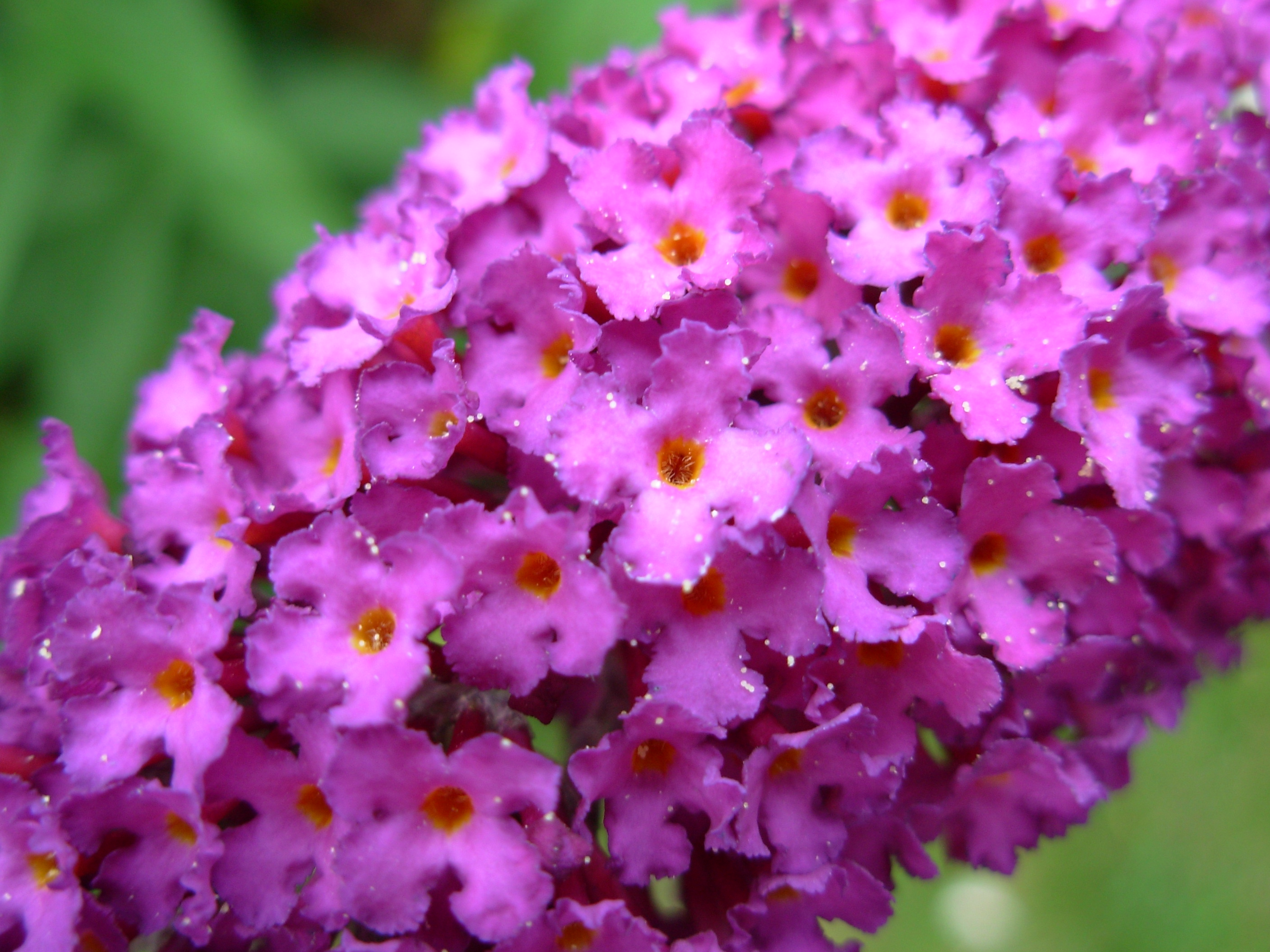 Purple flowers